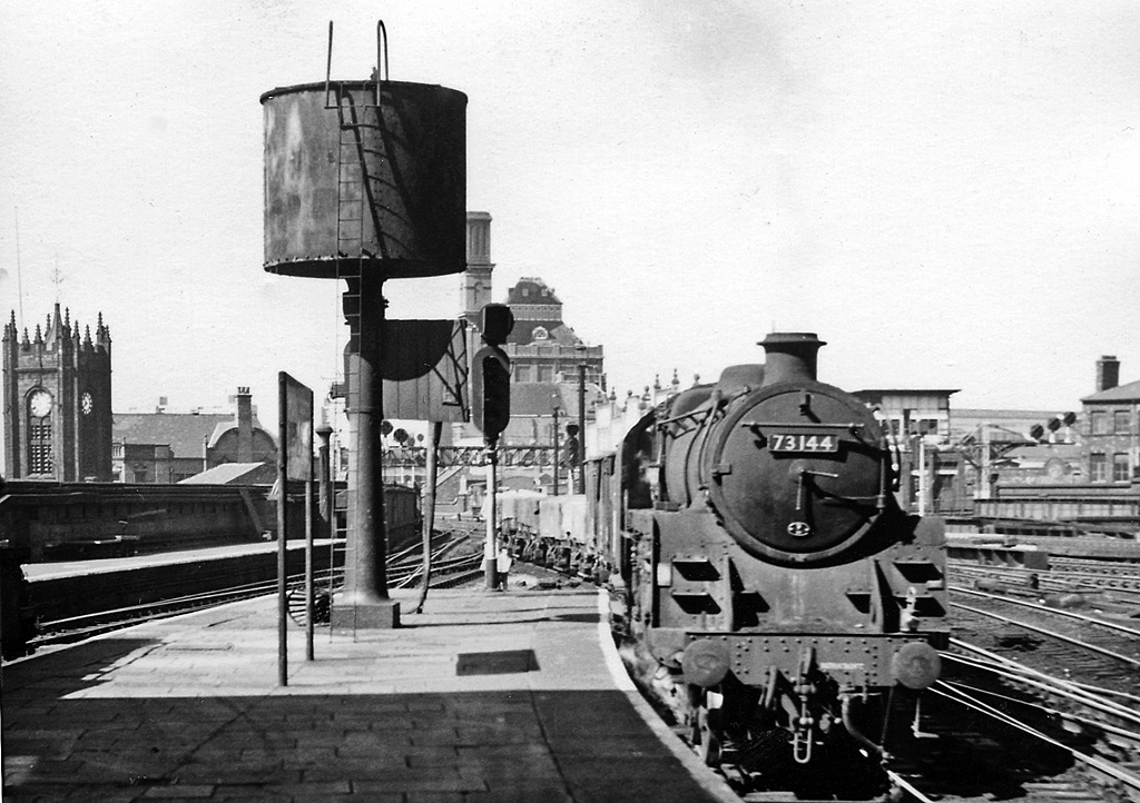 Eastbound freight entering Manchester Exchange Station. View westward from the end of Platform 5, towards Ordsall Lane/Salford etc. etc., with an eastbound Class K freight passing, headed by BR Standard (Caprotti valve-gear) 4-6-0 No. 73144. On the left Trinity Church is prominent; on the right are the lines into Victoria Station, and Deal Street Box (controlling all) is visible behind the locomotive.